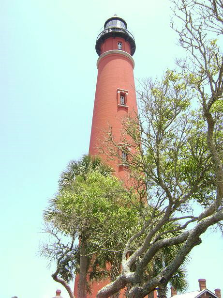 Ponce de Leon Inlet Light Station